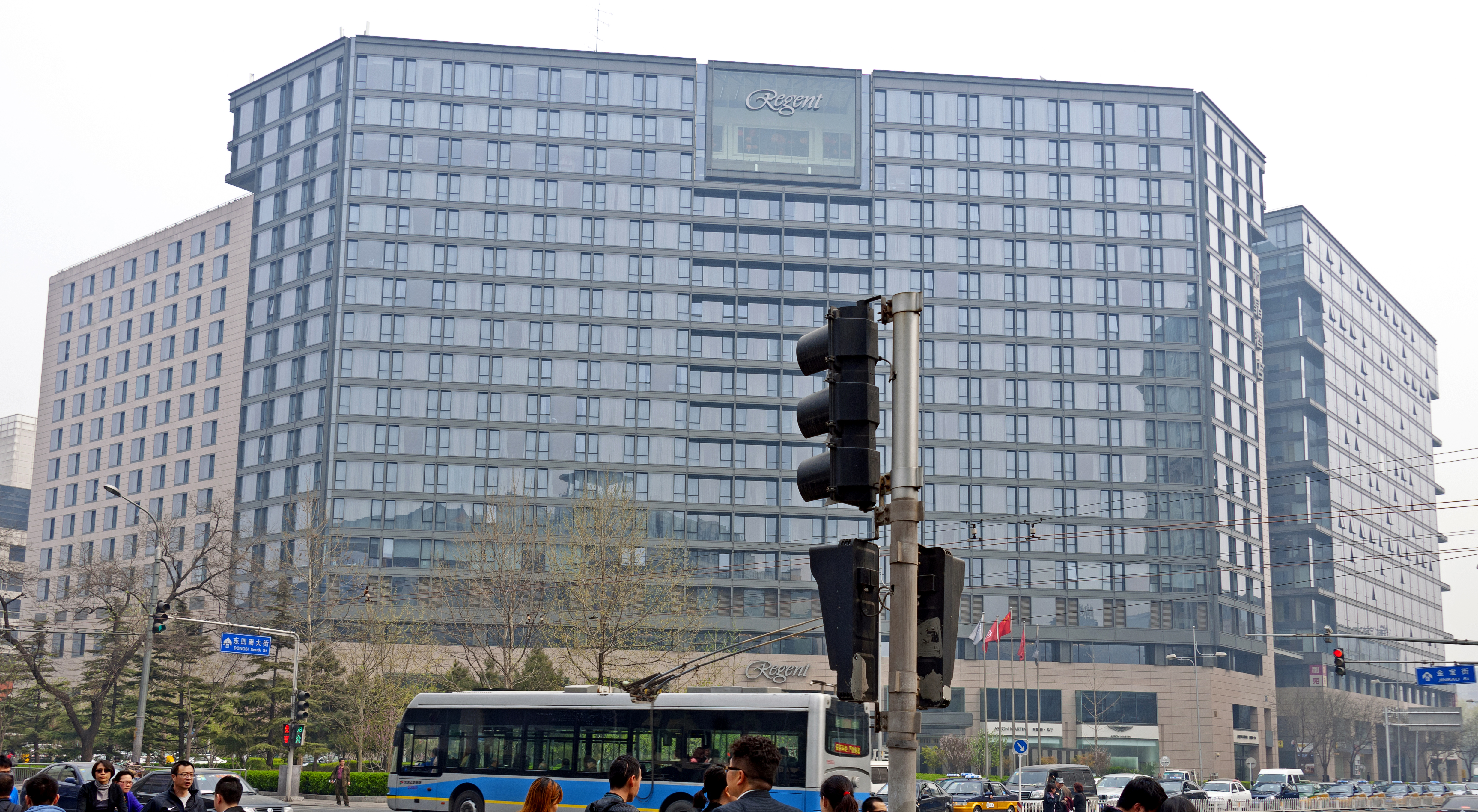 The Regent Hotel Beijing, from across the intersection of Dongsi Street South, Jinyu Hutong, Jinbao Street and Dongdan Street North.